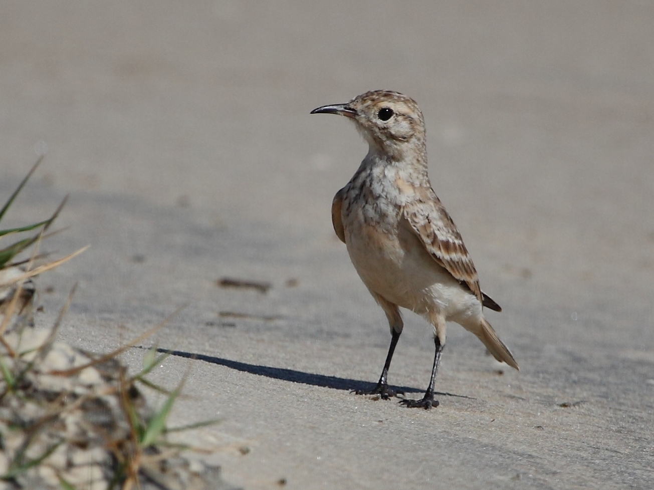 Common miner; Lagoa do Peixe National Park, Tavares, RS, Brazil